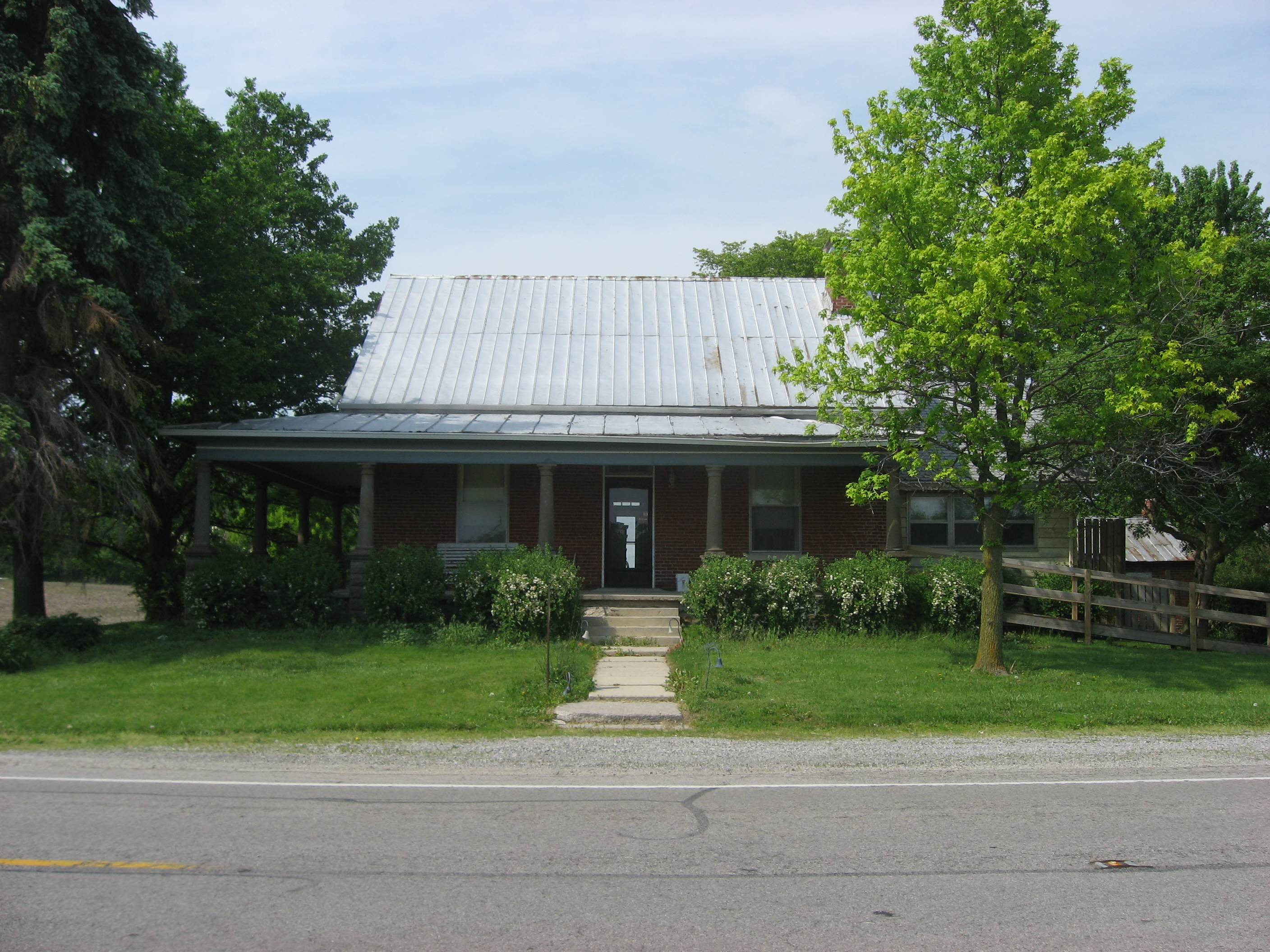 Front of the Hugh T. Rinehart House, located at 22011 State Route 67 in Union Township, Auglaize County, Ohio, United States, between Uniopolis and Waynesfield. Built in 1861, the house is listed on the National Register of Historic Places.